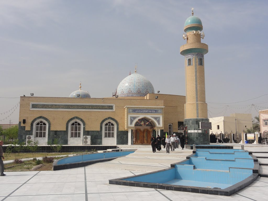 Hannane Mosque in Najaf City in Iraq